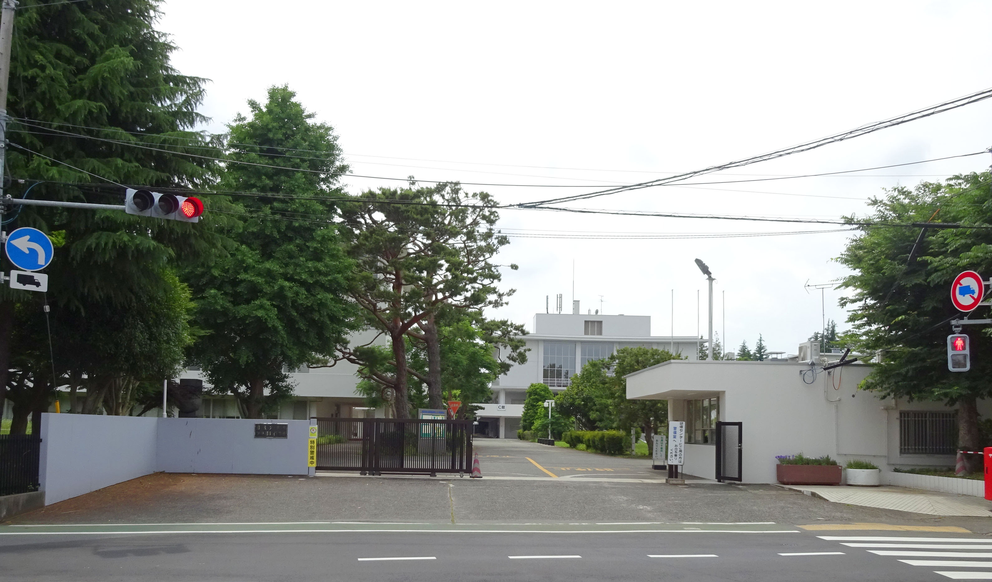 Postal College, Japan